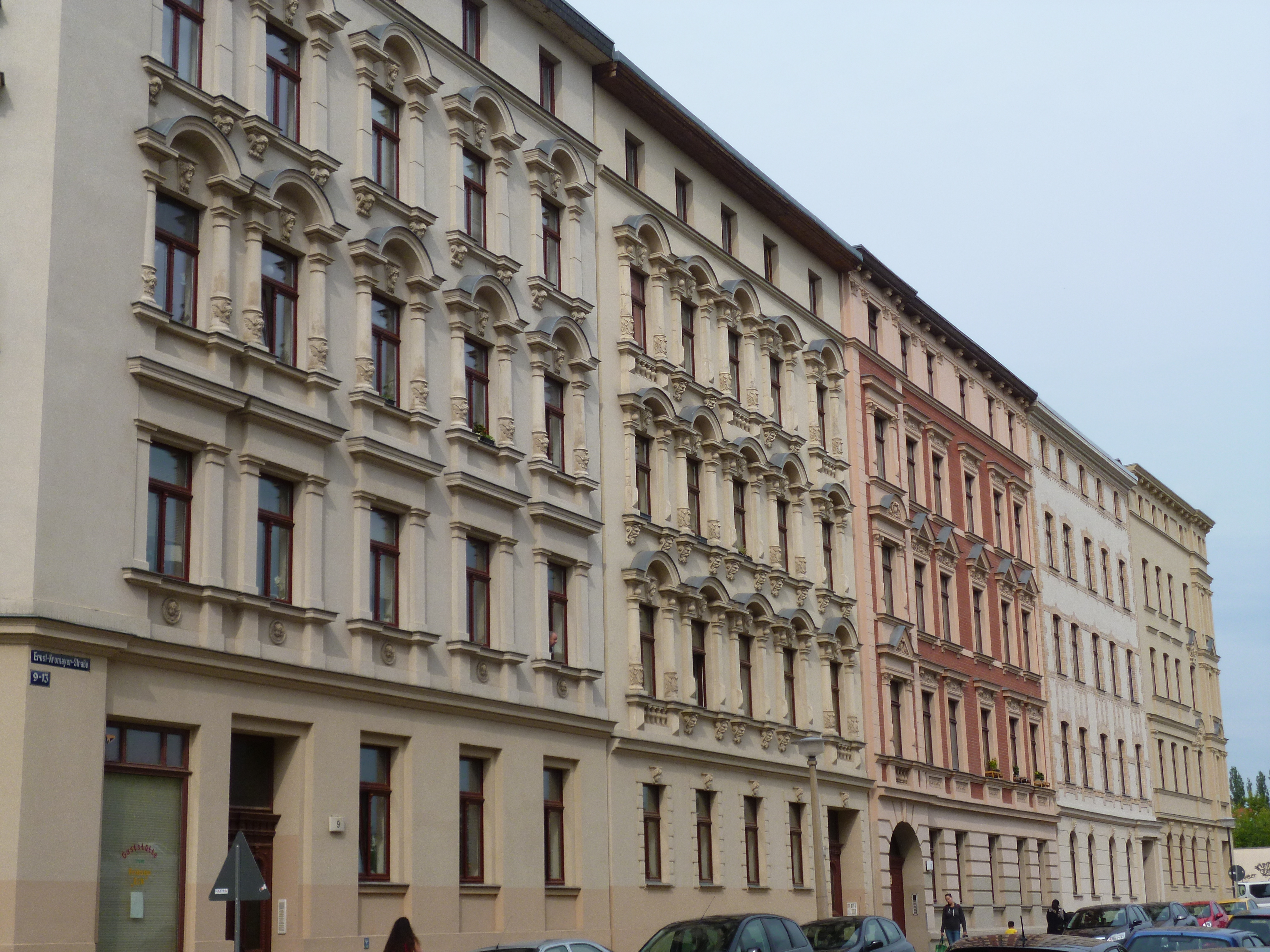 Street Ernst-Kromayer-Straße in Halle (Saale)